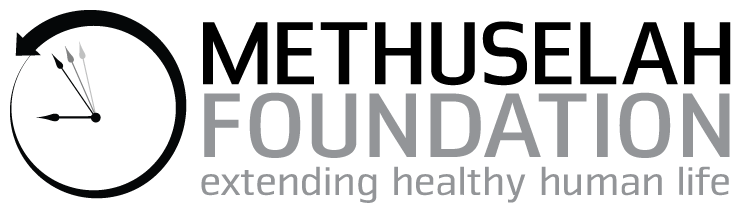 Methuselah Foundation logo